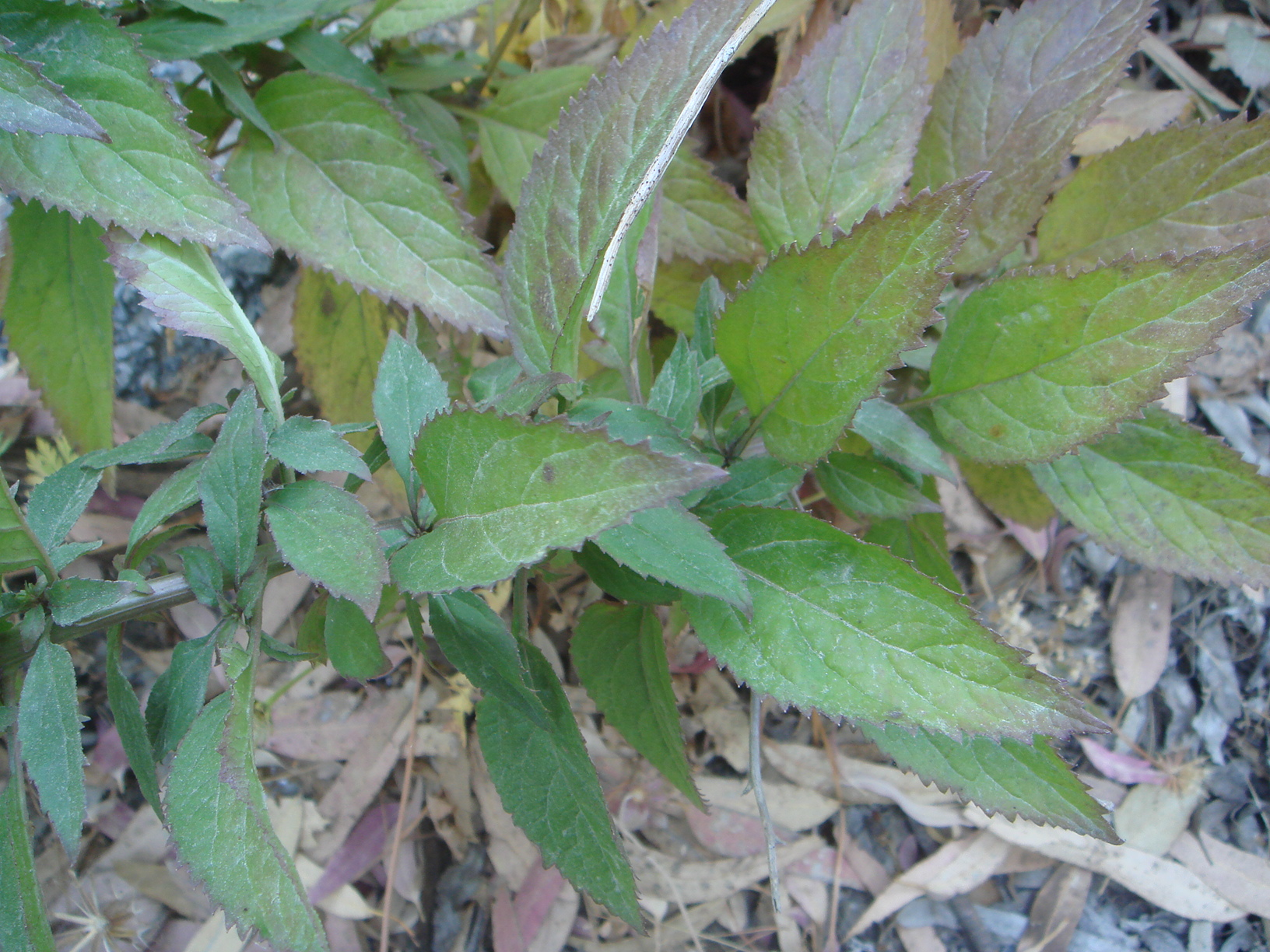 Throatwort, (Trachelium caeruleum subsp. caeruleum), Spain, Ceuta.